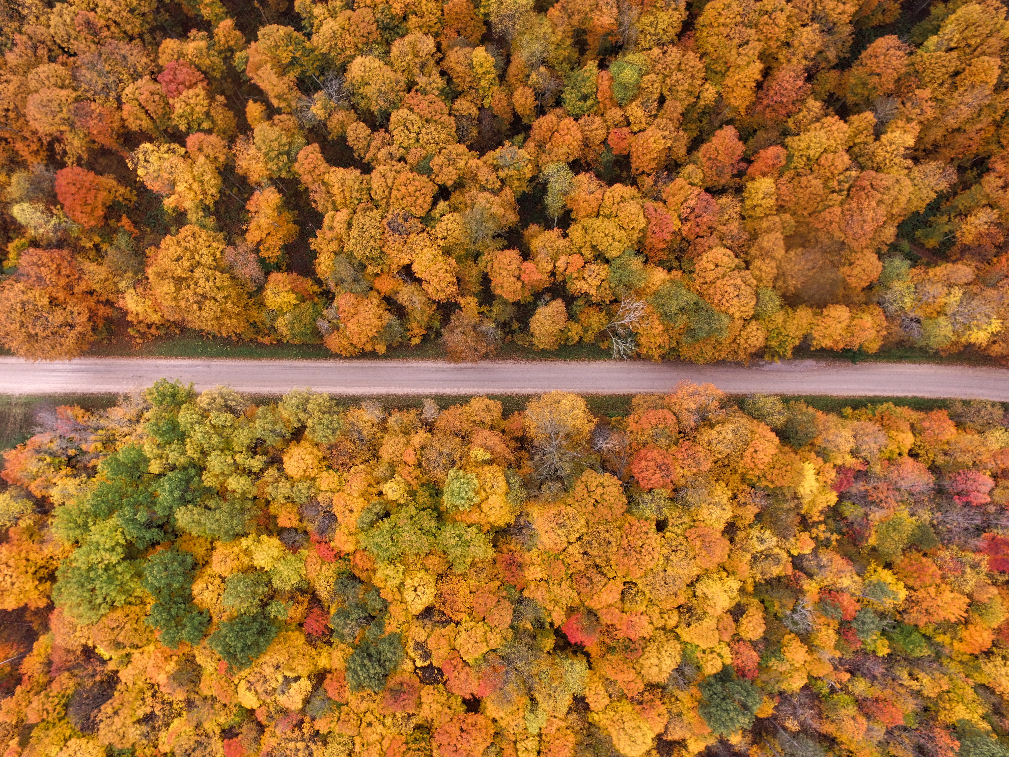 East Jordan, United States